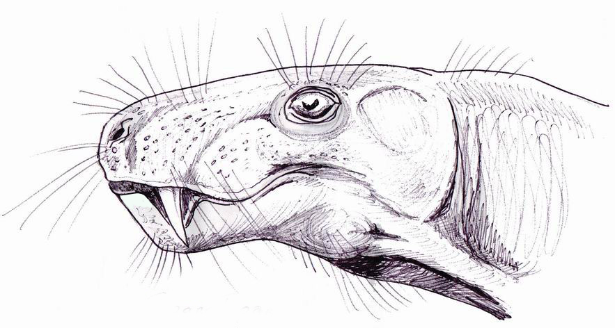 Eriphostoma, formerly Eoarctops.